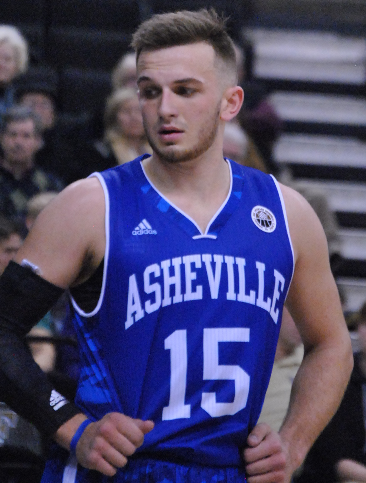 The Bulldog's Andrew Rowsey on the Floor at the Joel Coliseum. Rowsey is a graduate of Rockbridge County High School in Lexington, Virginia